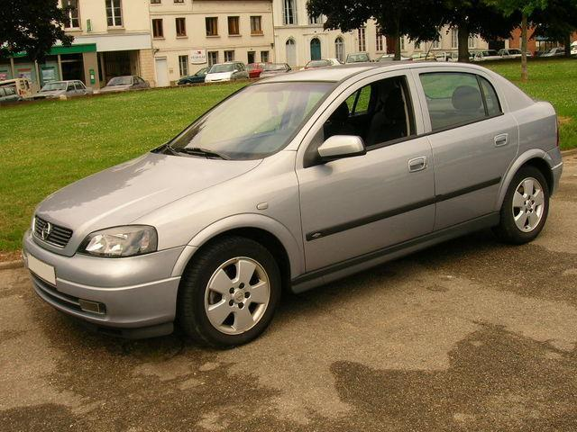 Opel Astra G 5Door